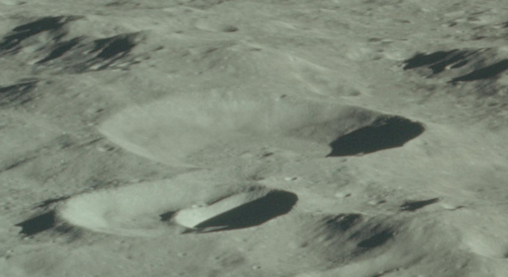 Oblique view of Holetschek, on the far side of the moon.